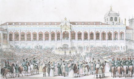 Exterior view of the acclamation of João VI as king of the United Kingdom of Portugal, Brazil and Algarves.